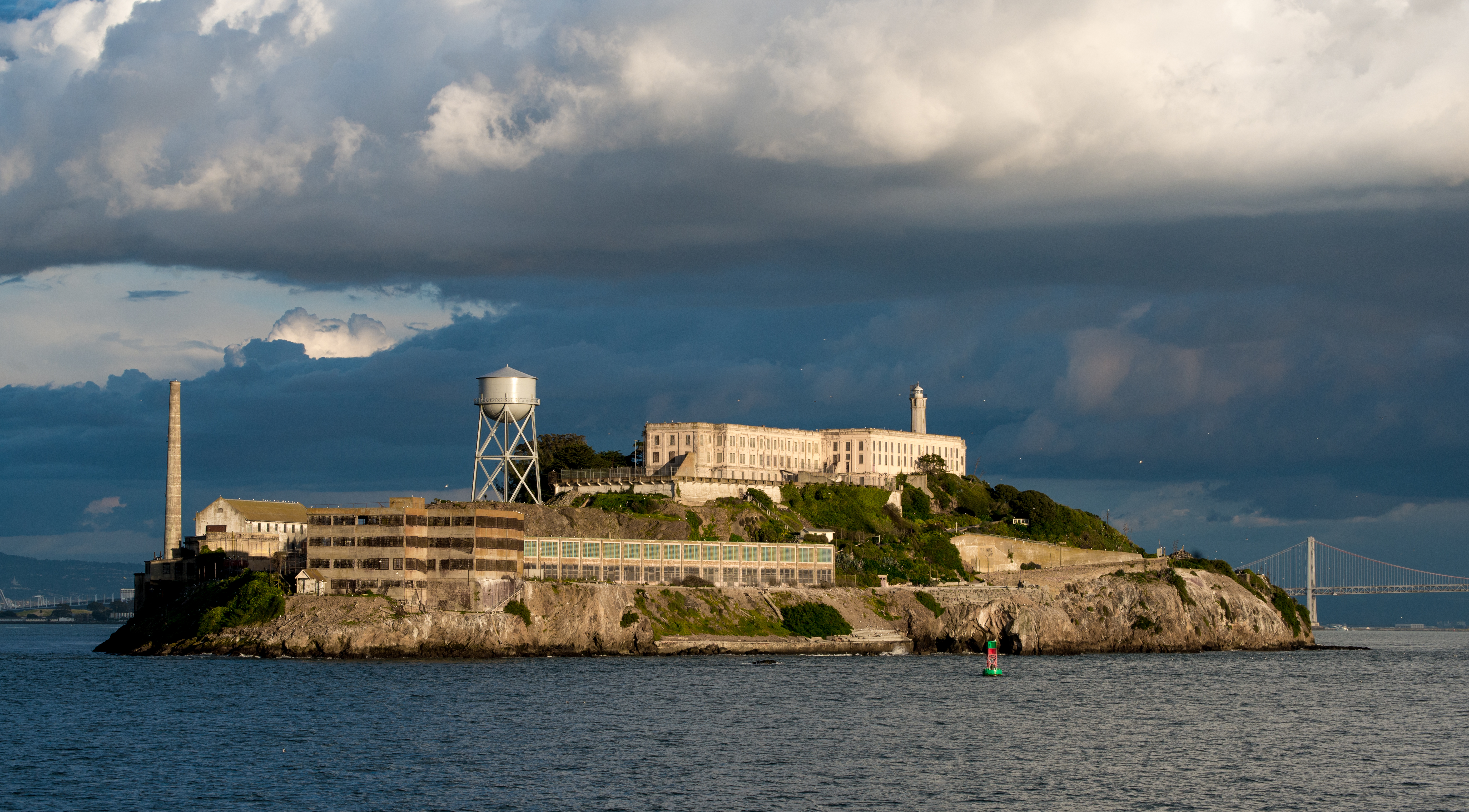 Alcatraz Island after a storm in San Francisco Bay.